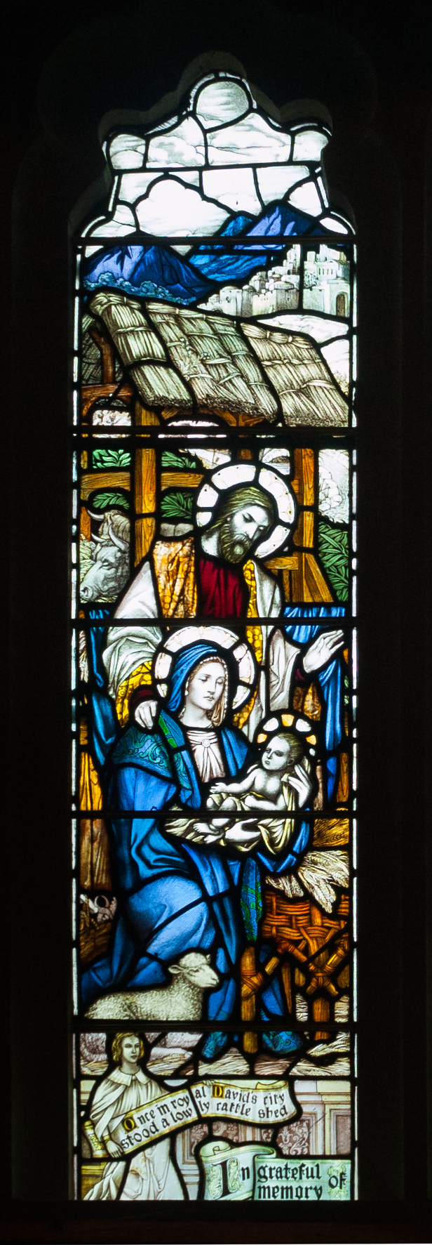 Left light of the window in the north vestibule in memory of the poet and hymn-writer Cecil Frances Alexander who died on 12 October 1895 in Derry. She was the wife of William Alexander, bishop of Derry. This light refers to “Once in Royal David's City” with the scene of the Nativity. The window was unveiled on by the Right Rev. Bishop Montgomery, at a service held on 21 March 1913, along with a memorial window for her husband who died in 1911. (See Irish Times, 22 March 1913, p. 10.)